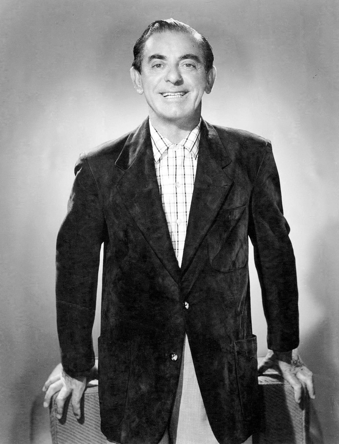 Pubility photo of Eddie Cantor from the television show The Colgate Comedy Hour, where he was one of the five rotating hosts.